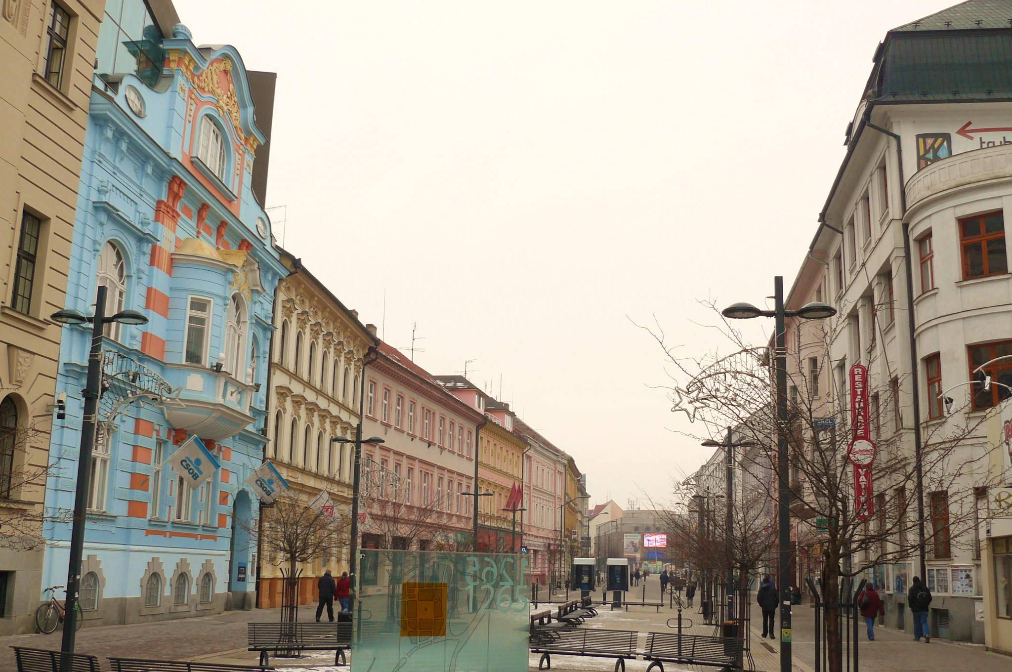 Lannova trida - Ceske Budejovice.